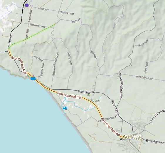 Map of the Bass Coast Rail Trail:, including proposed extension to Woolamai. Cartography by Steve Bennett, data by OpenStreetMap contributors.